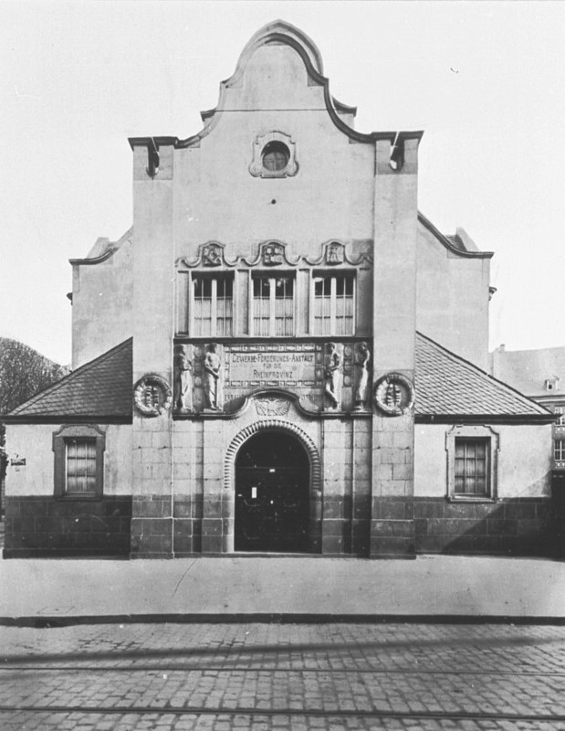 Gewerbeförderungsanstalt, Köln, (rba_mf062564)